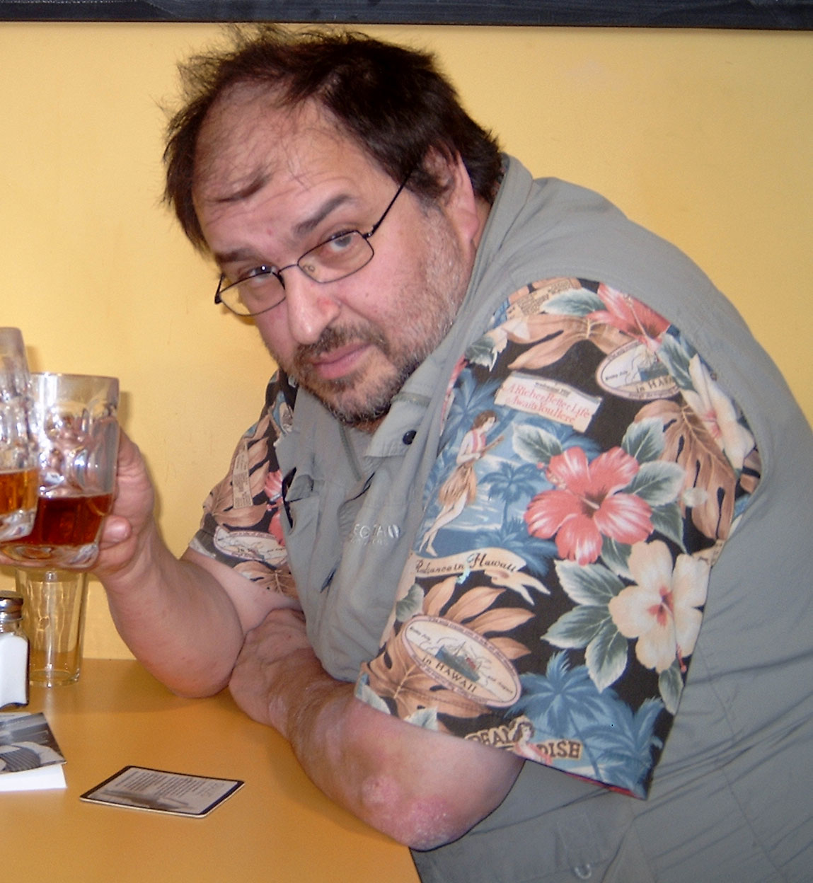 Henry Gee at the Betjeman Arms, Kings Cross, December 2008. Photograph by Richard P. Grant. Article: Henry_Gee